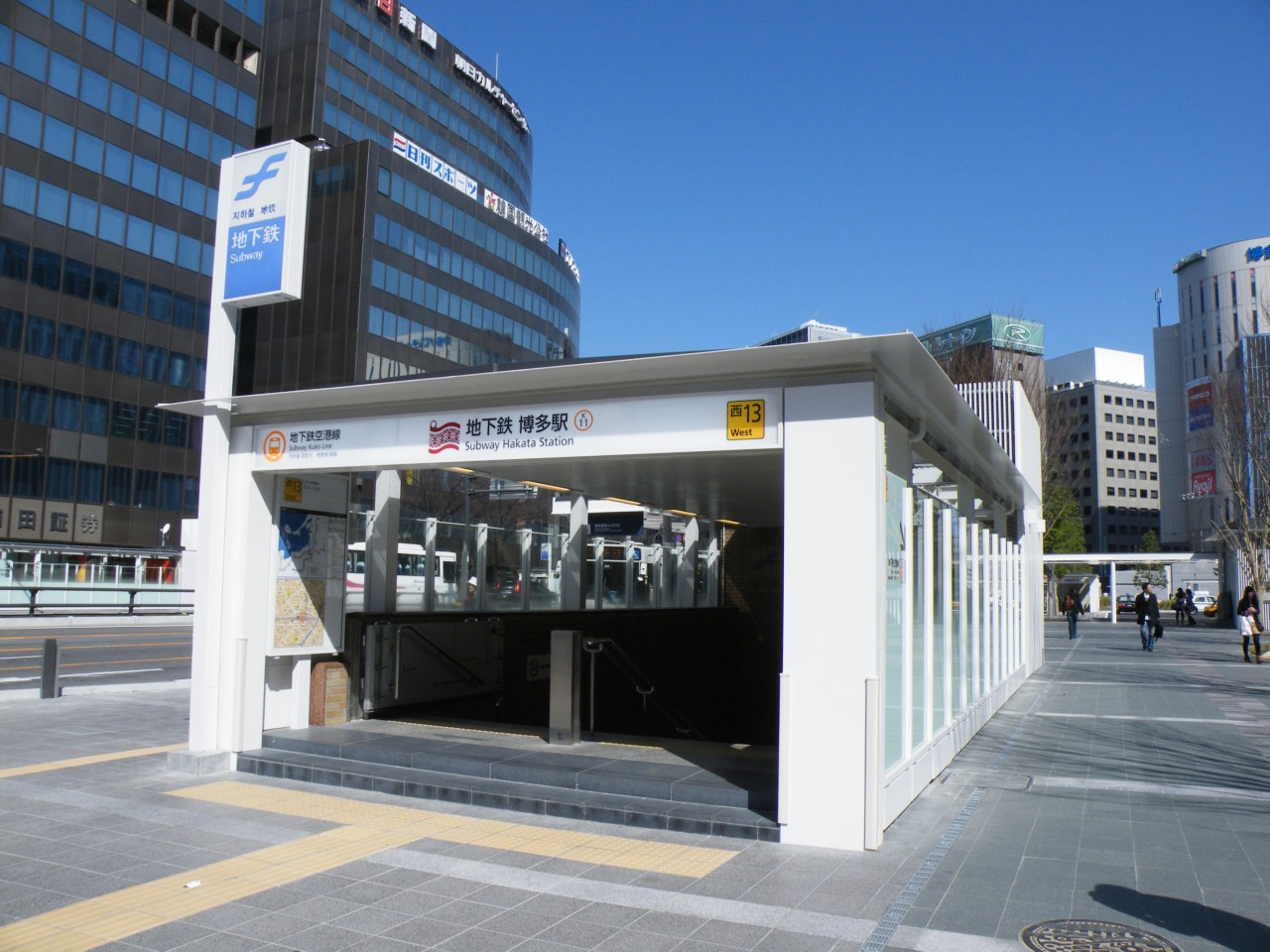 Fukuoka Subway Hakata Station Entrance #13 (formerly #1)